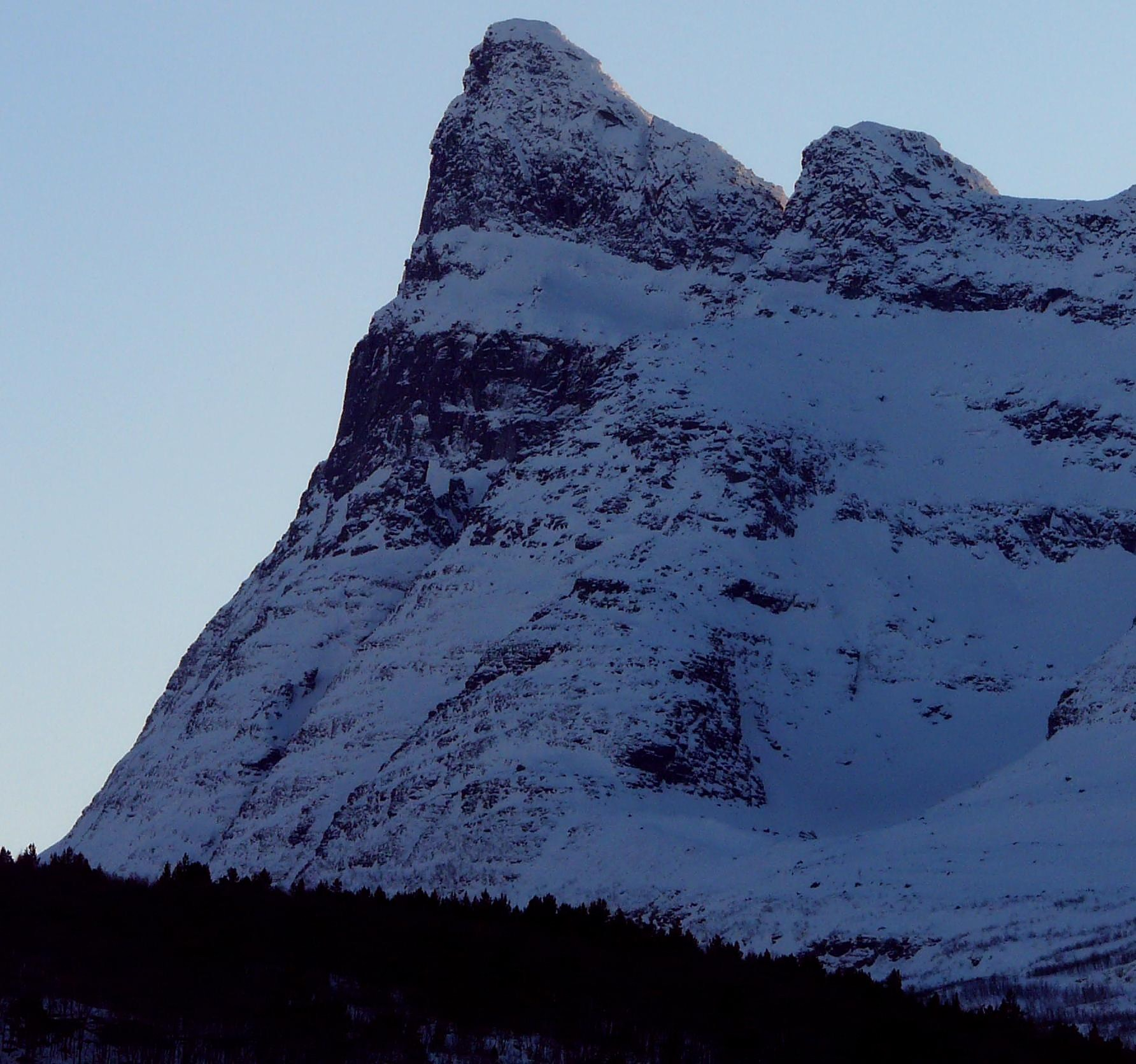 Otertinden / Ivvárasággi (1,356 m) seen from the north in Hatteng in 2009 February.